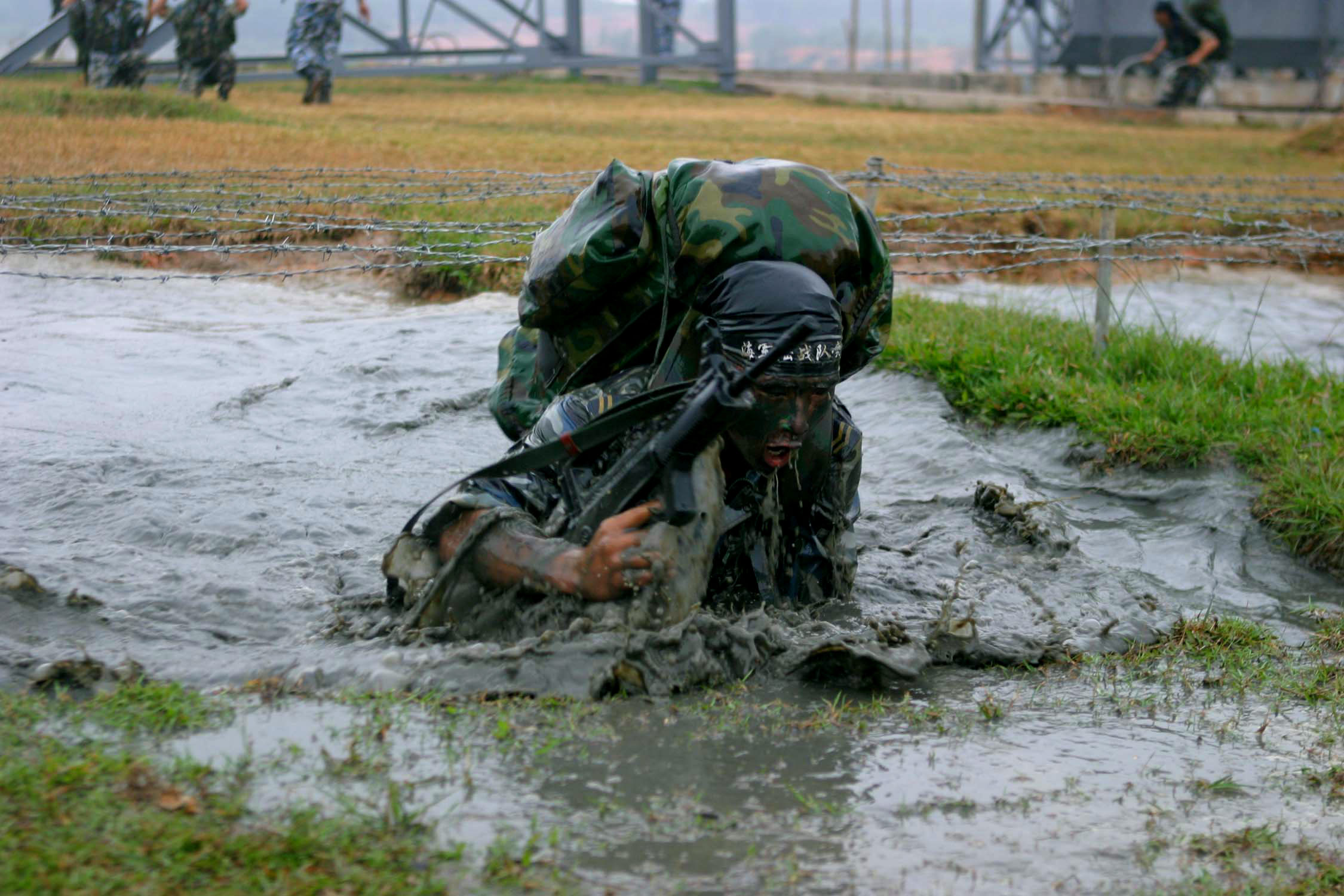 Zhanjiang, People's Republic of China (Nov. 16, 2006) - A marine with the People's Liberation Army (Navy) (PLA (N)) marine regiment, fights through a combat obstacle course at a naval base as part of a day of marine capability demonstrations held for Commander, U.S. Pacific Fleet, Adm. Gary Roughead. Several other U.S. military personnel attended. The demonstration is part of a multi-faceted port visit for the amphibious transport docks ship USS Juneau (LPD 10) and upcoming search-and-rescue exercise (SAREX) with PLA (N) assets meant to foster mutual understanding, transparency and cooperation between both nations and navies. U.S. Marine Corps photo by Lance Cpl. J.J. Harper (RELEASED)